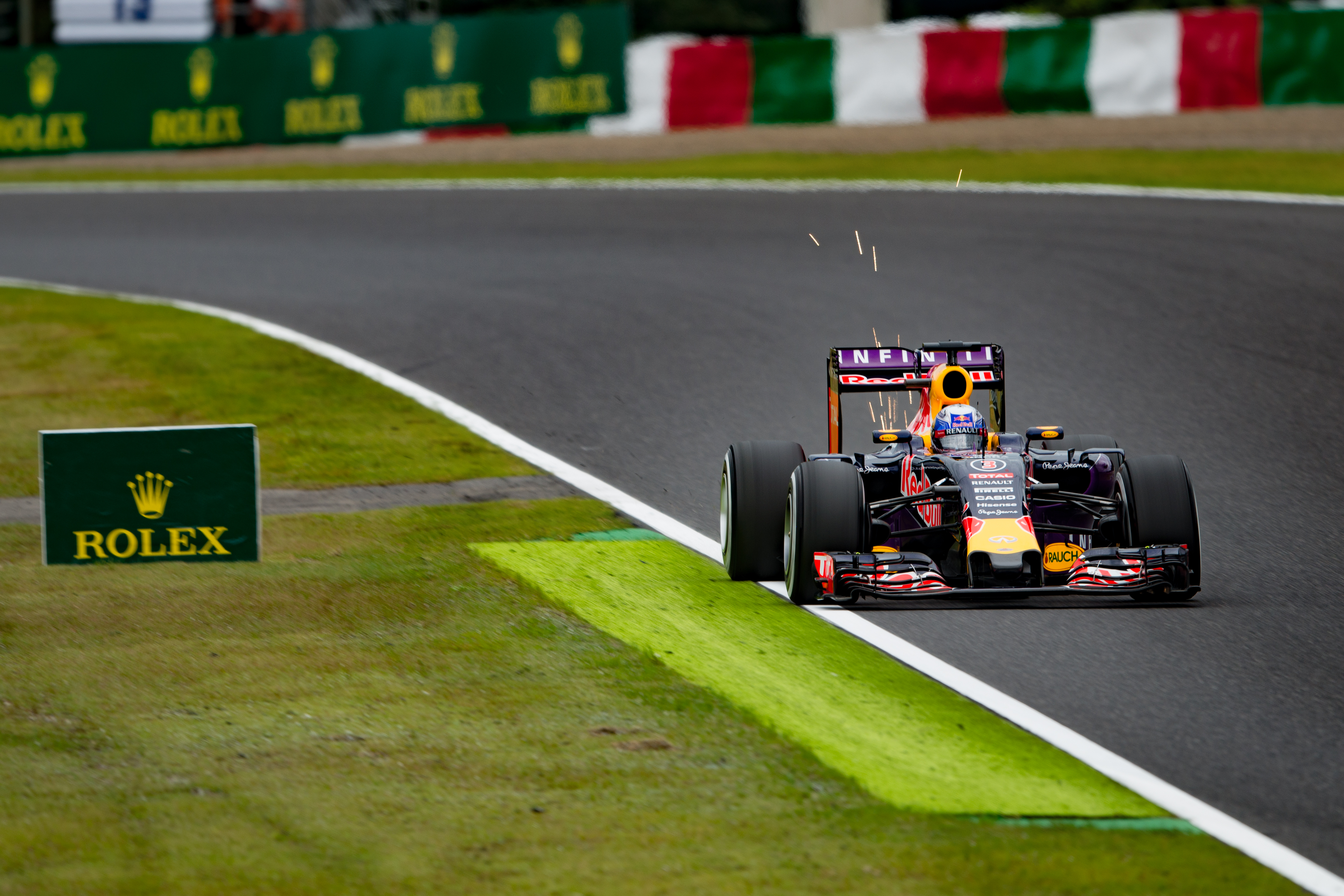 Daniel Ricciardo at the 2015 Japanese Grand Prix